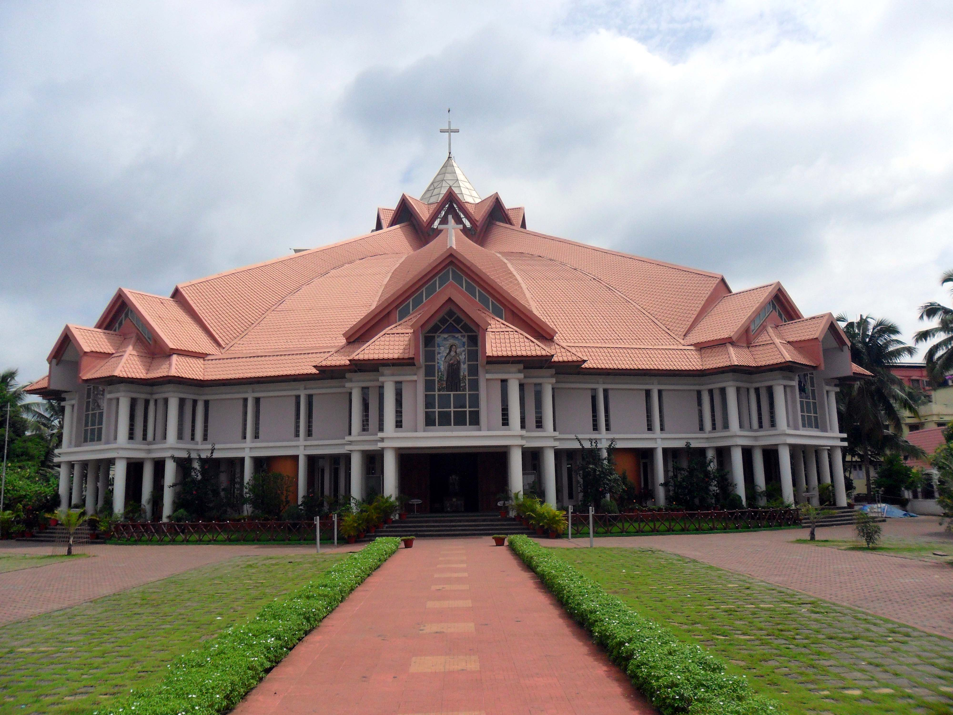 Little Flower Church Elamkulam 01